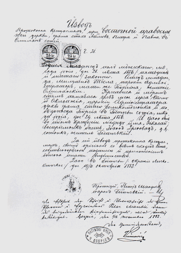 Birth certificate (actually, excerpt from the protocol of baptised) of Nikola Tesla.